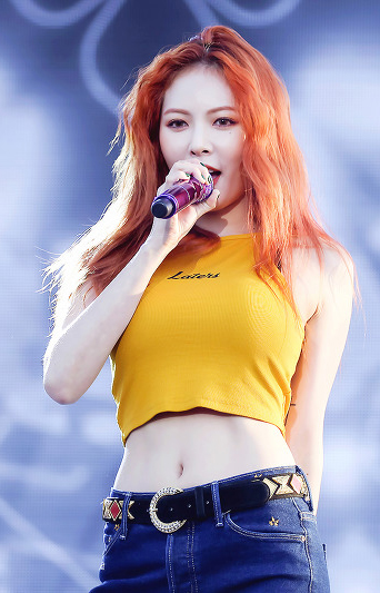 HyunA at Dream Station on May 27, 2017